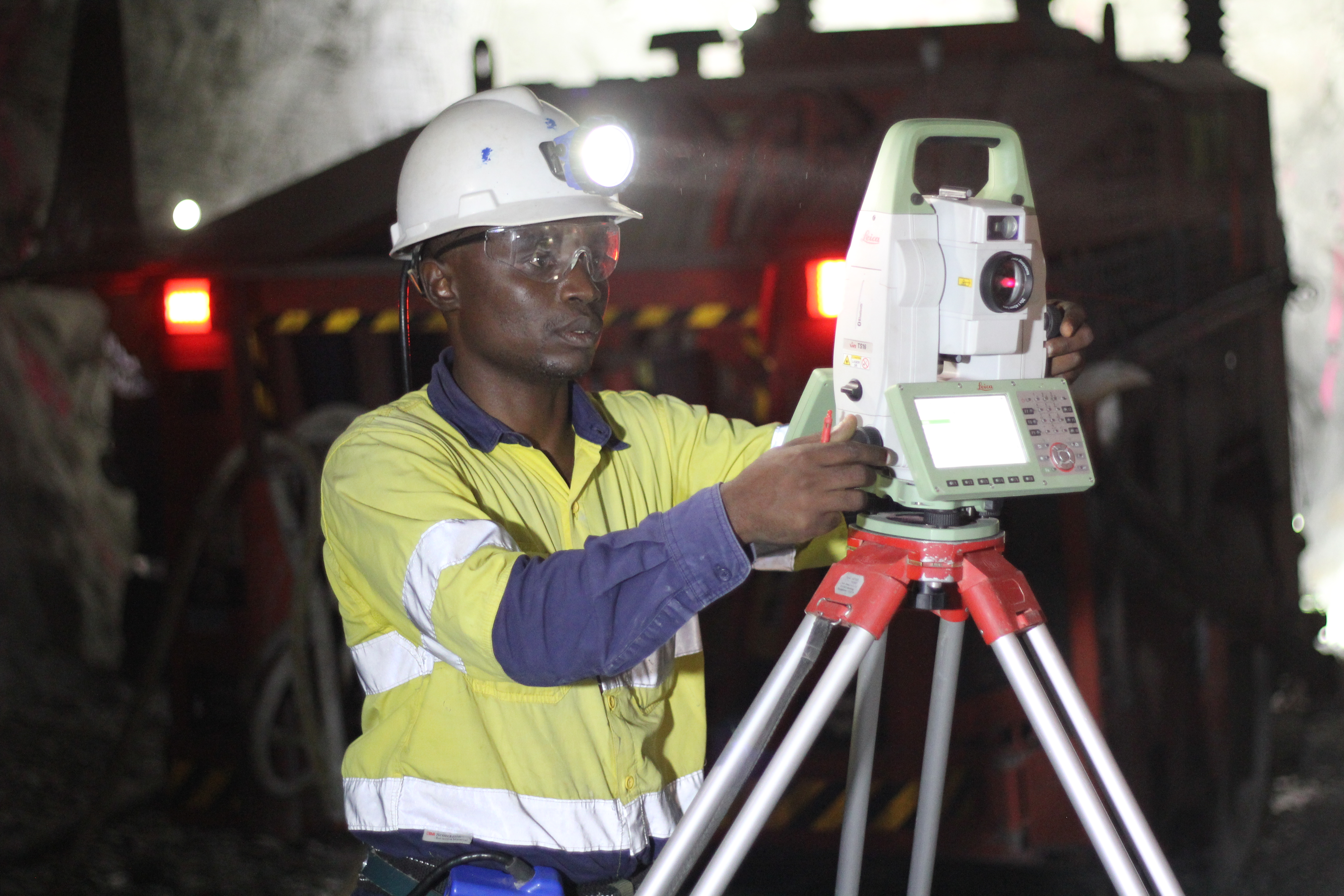 Measurements is conducted even in the underground. This is an image of "African people at work" from Tanzania